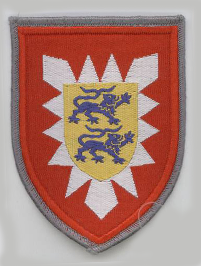 17th Armored Grenadiers Brigade